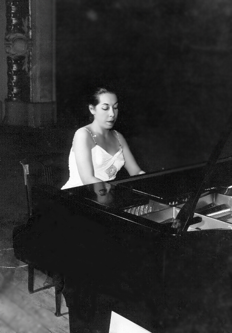 Clarisse Leite (my mother) playing the piano at Teatro Municipal de São Paulo